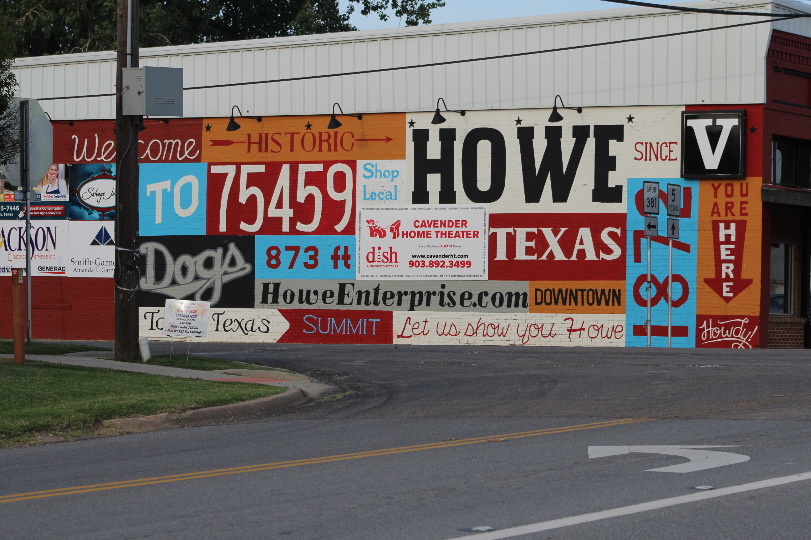 Howe's Downtown Mural with legendary Victory Light